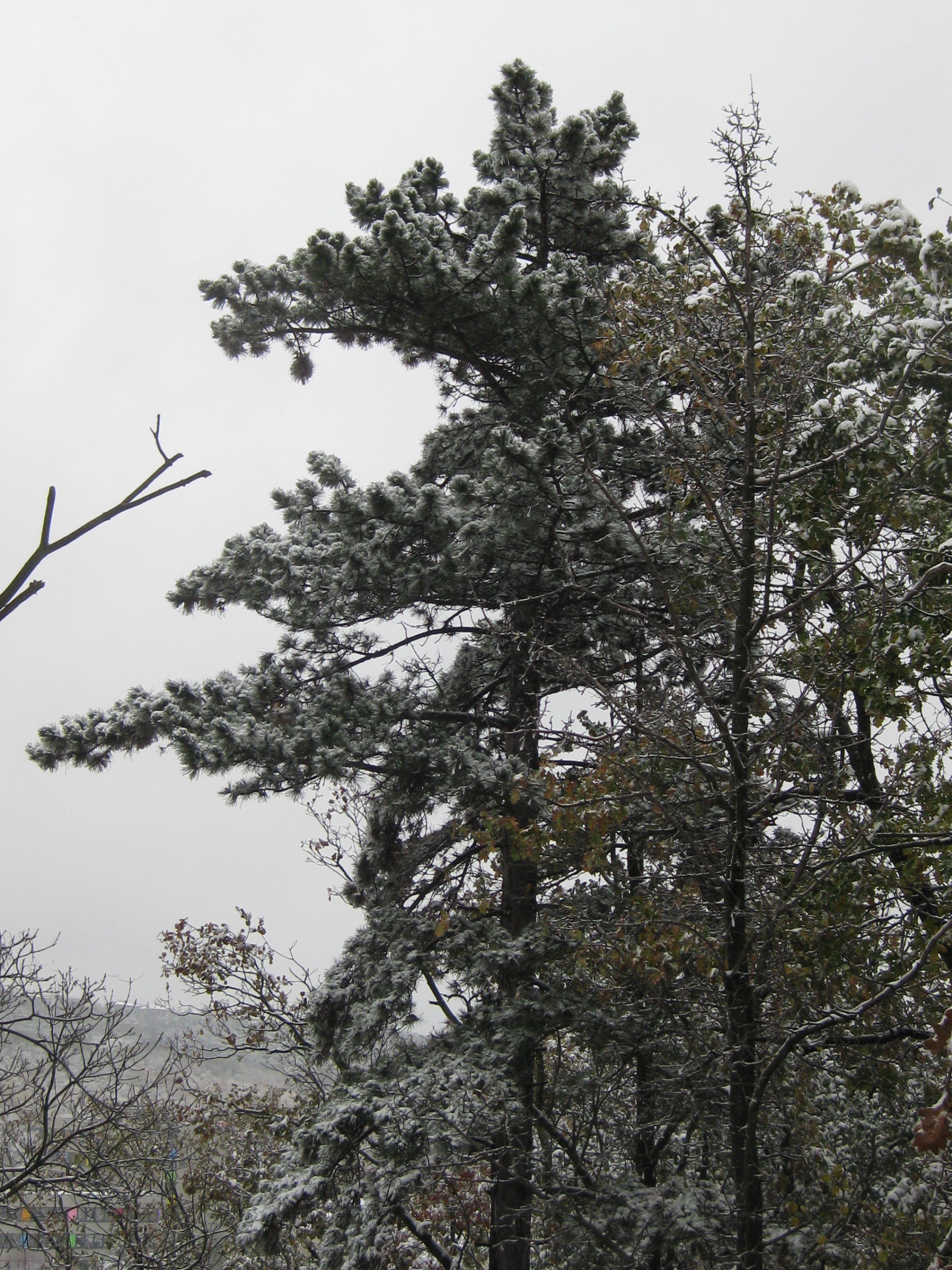 Natural monument Calvary in Motol in Prague, Czech Republic